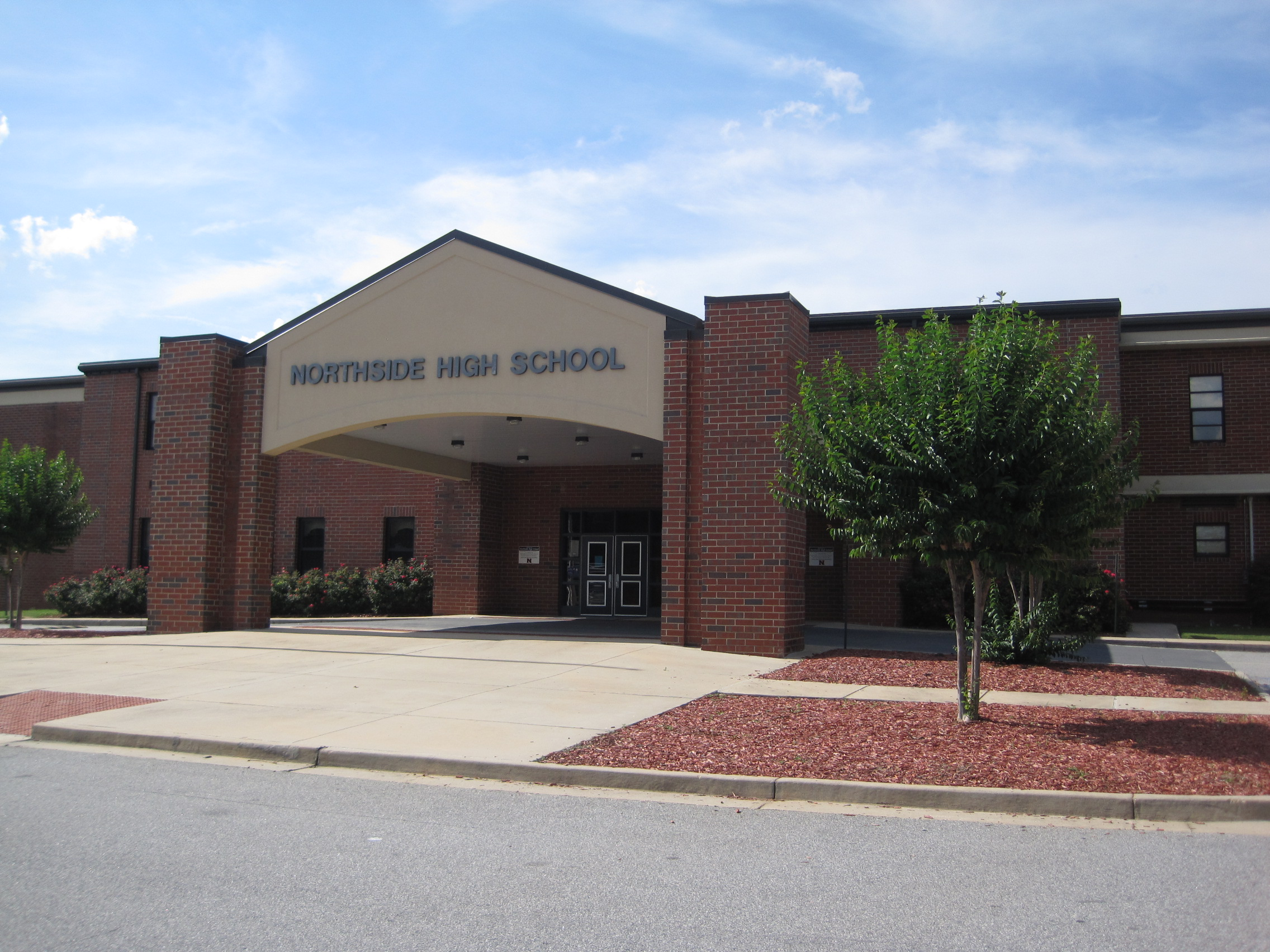 Main entrance to Northside High School